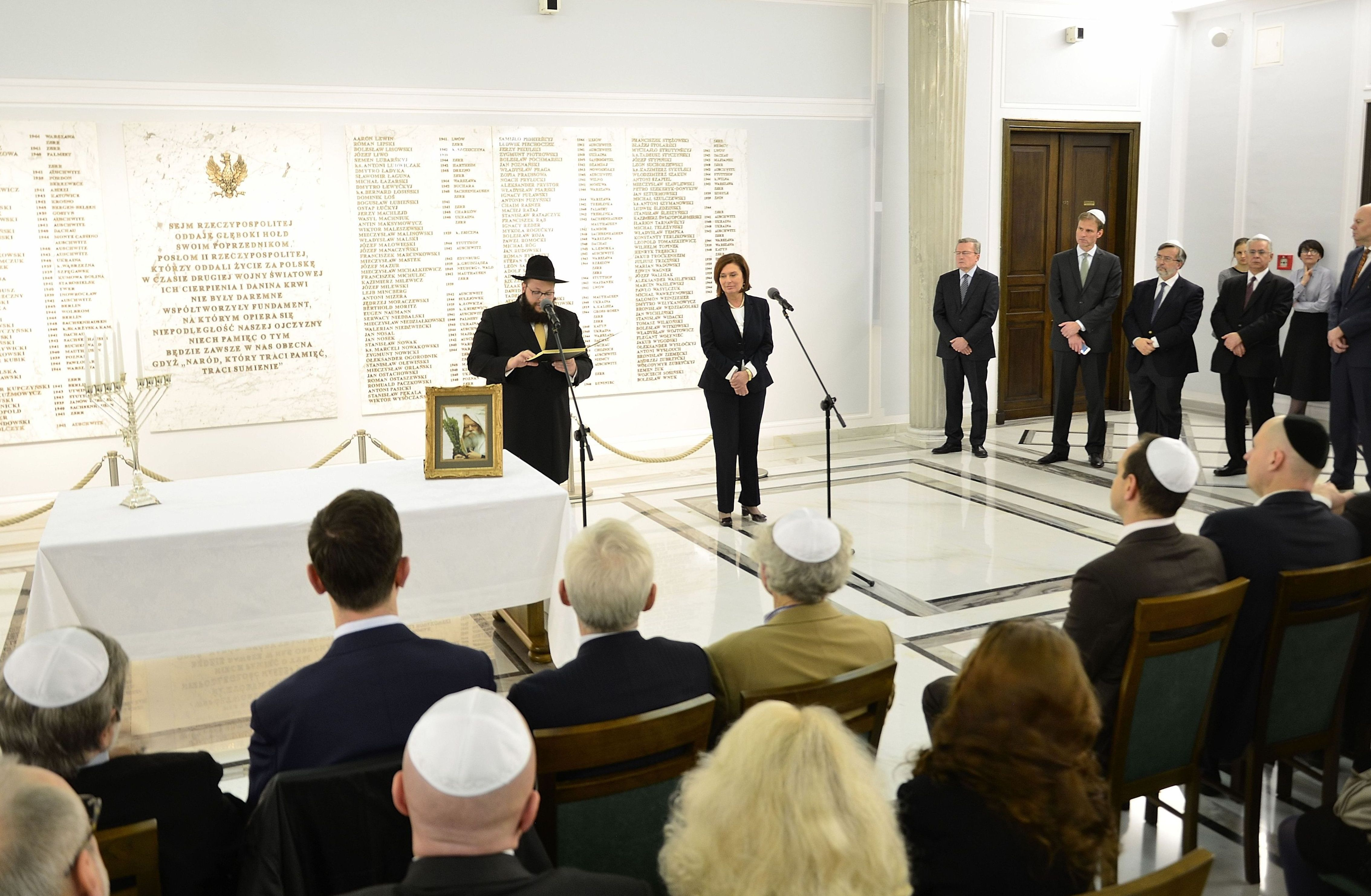 Lighting menorah during Hanukkah in the Polish Sejm